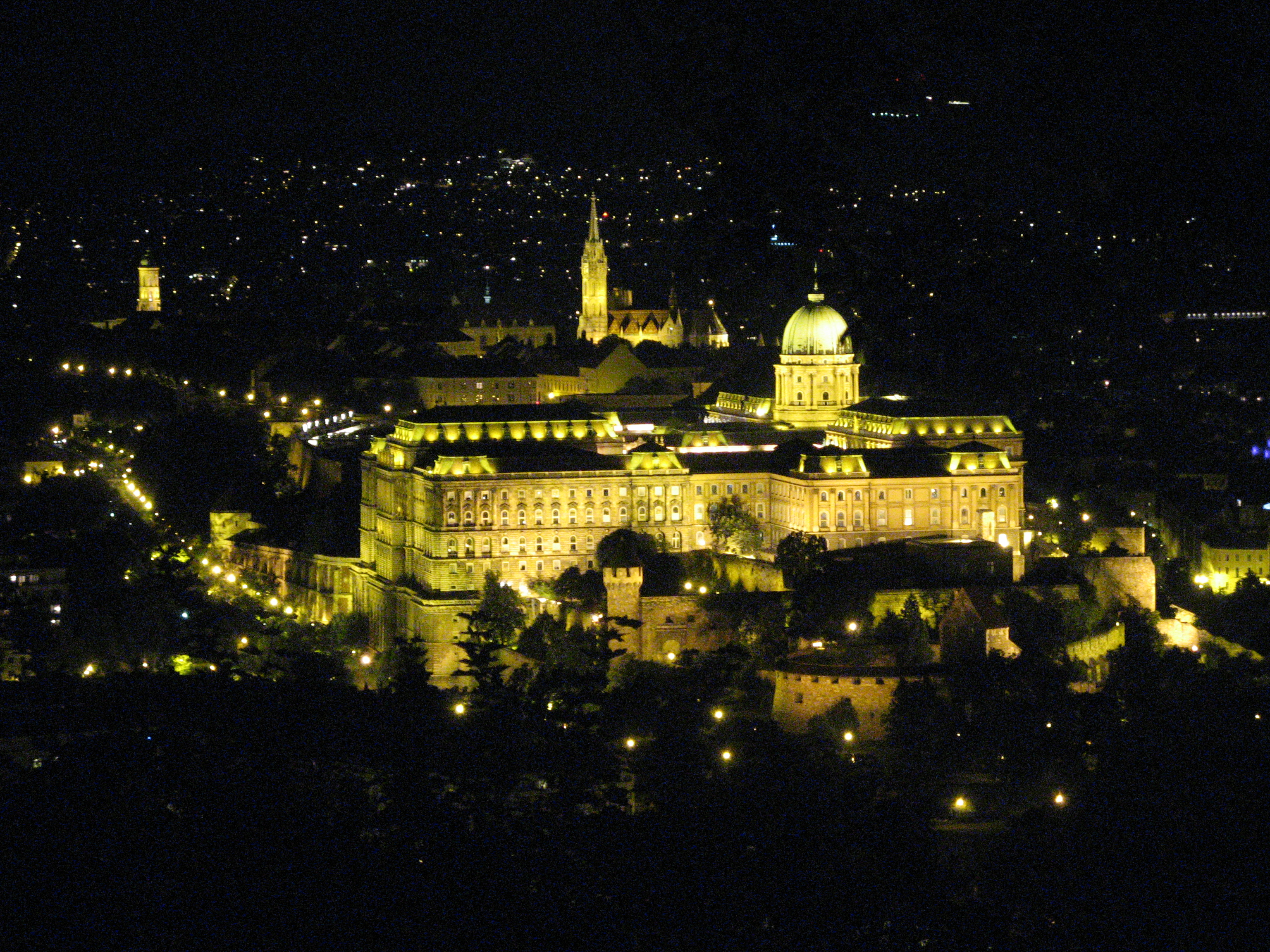 A view on the Buda Castle (Castle Hill) from the Citadel of Buda